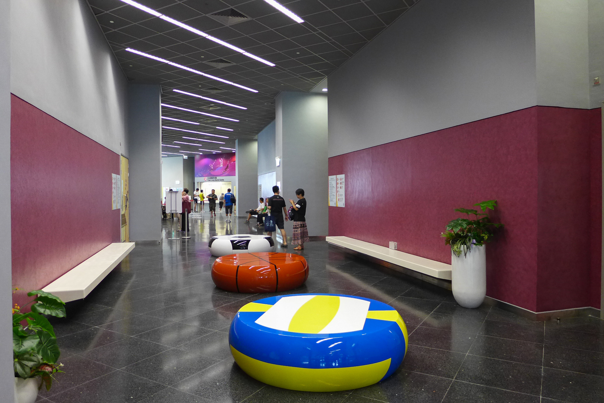 Yuen Long Leisure and Cultural Building